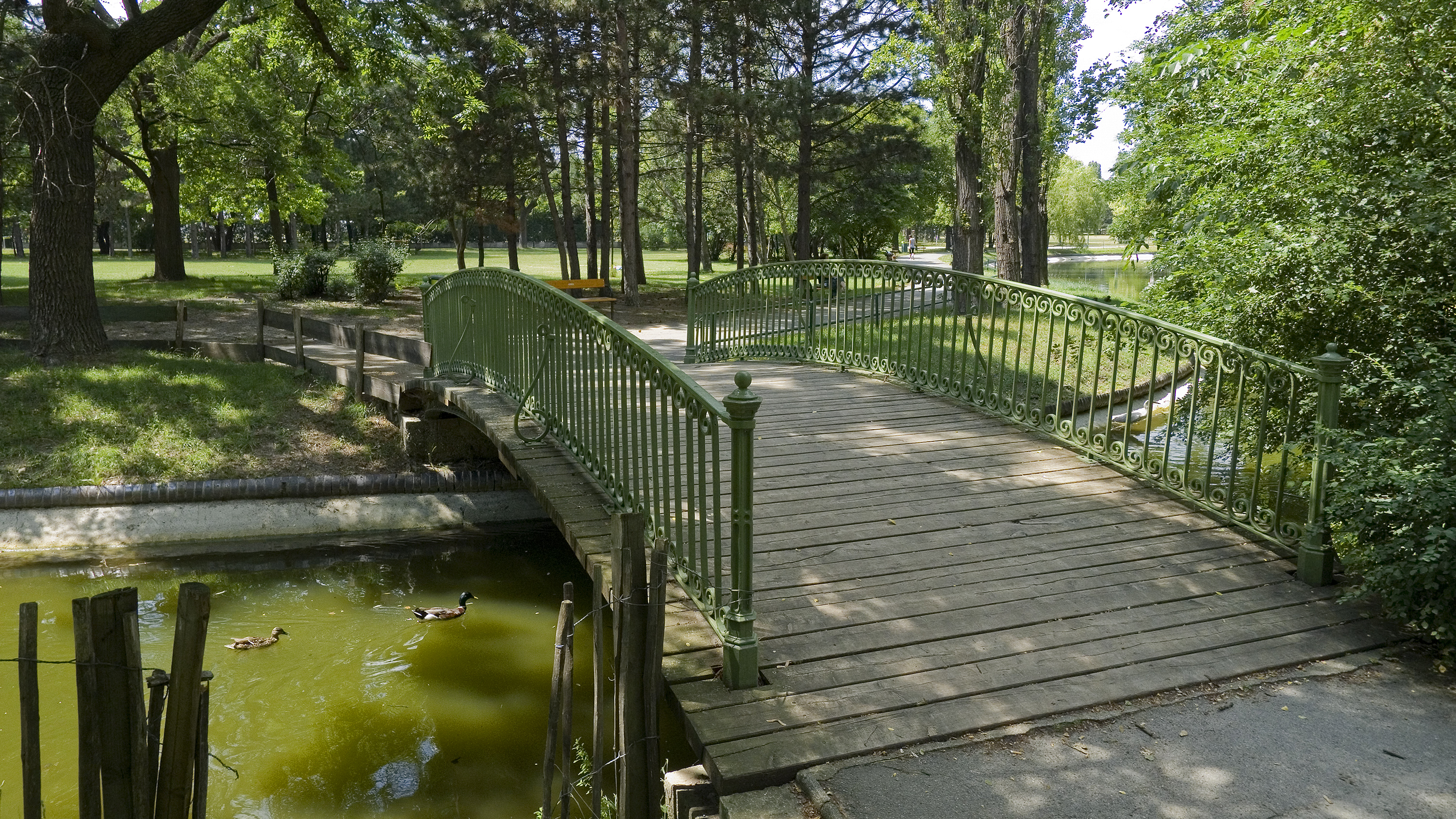 Bridge „Konstantinsteg“ in the recreational area Wiener Prater in Vienna 2